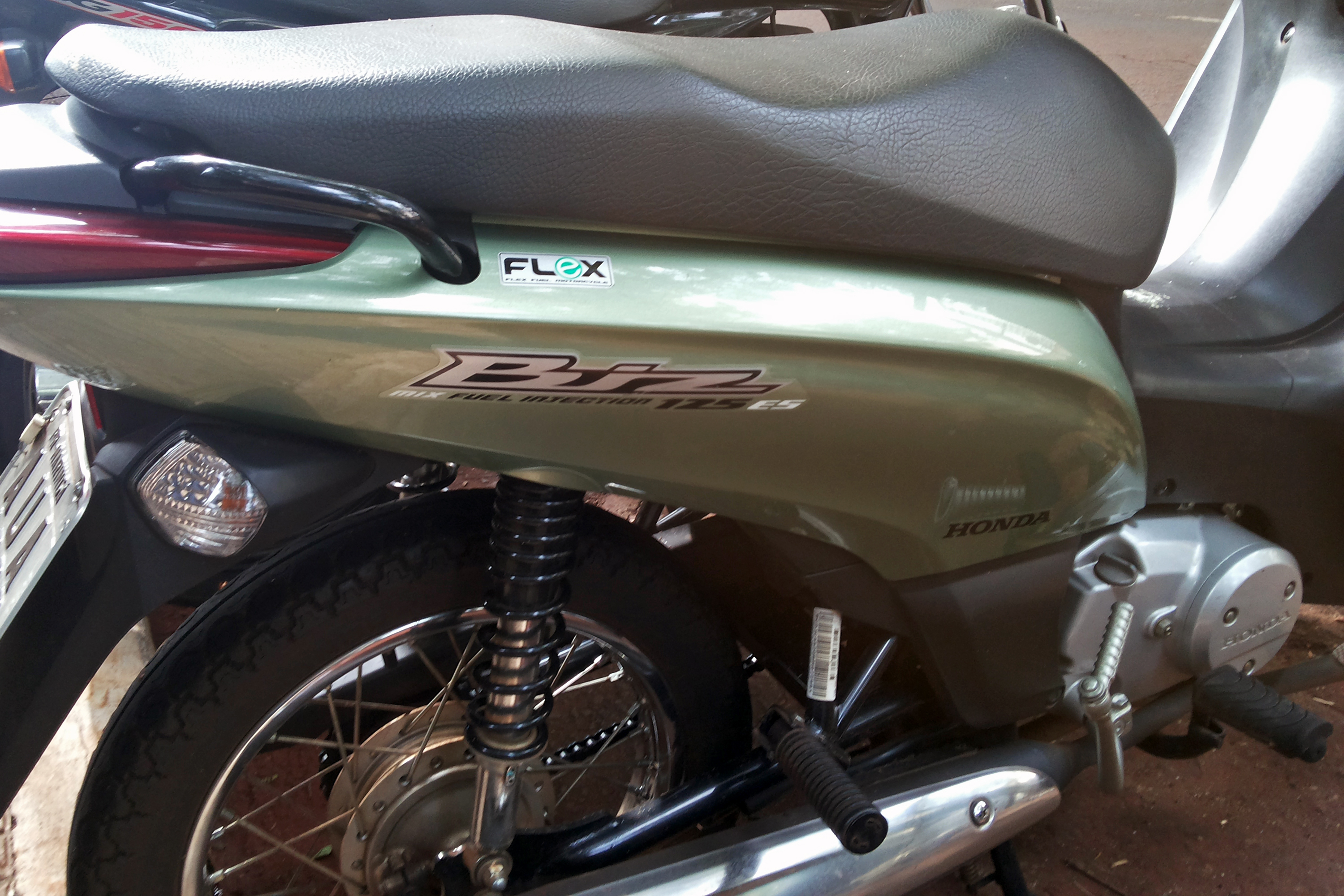 Flex badge for Honda Biz 125 flex-fuel motorcycle, Maringa, Brazil